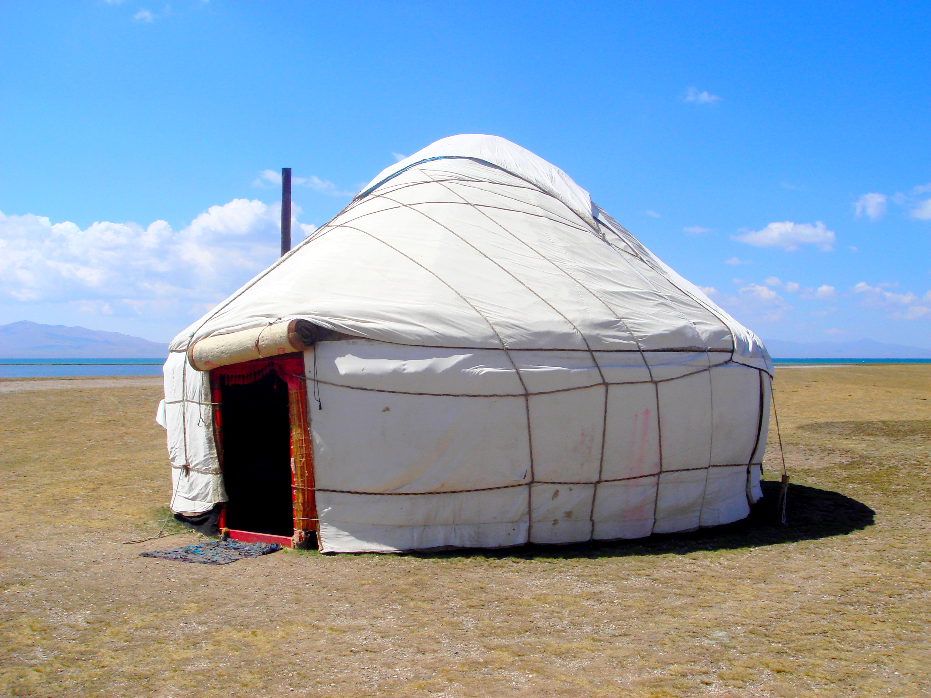 Kyrgyz yurt near the lake Song-Köl (Naryn Province, Kyrgyzstan).